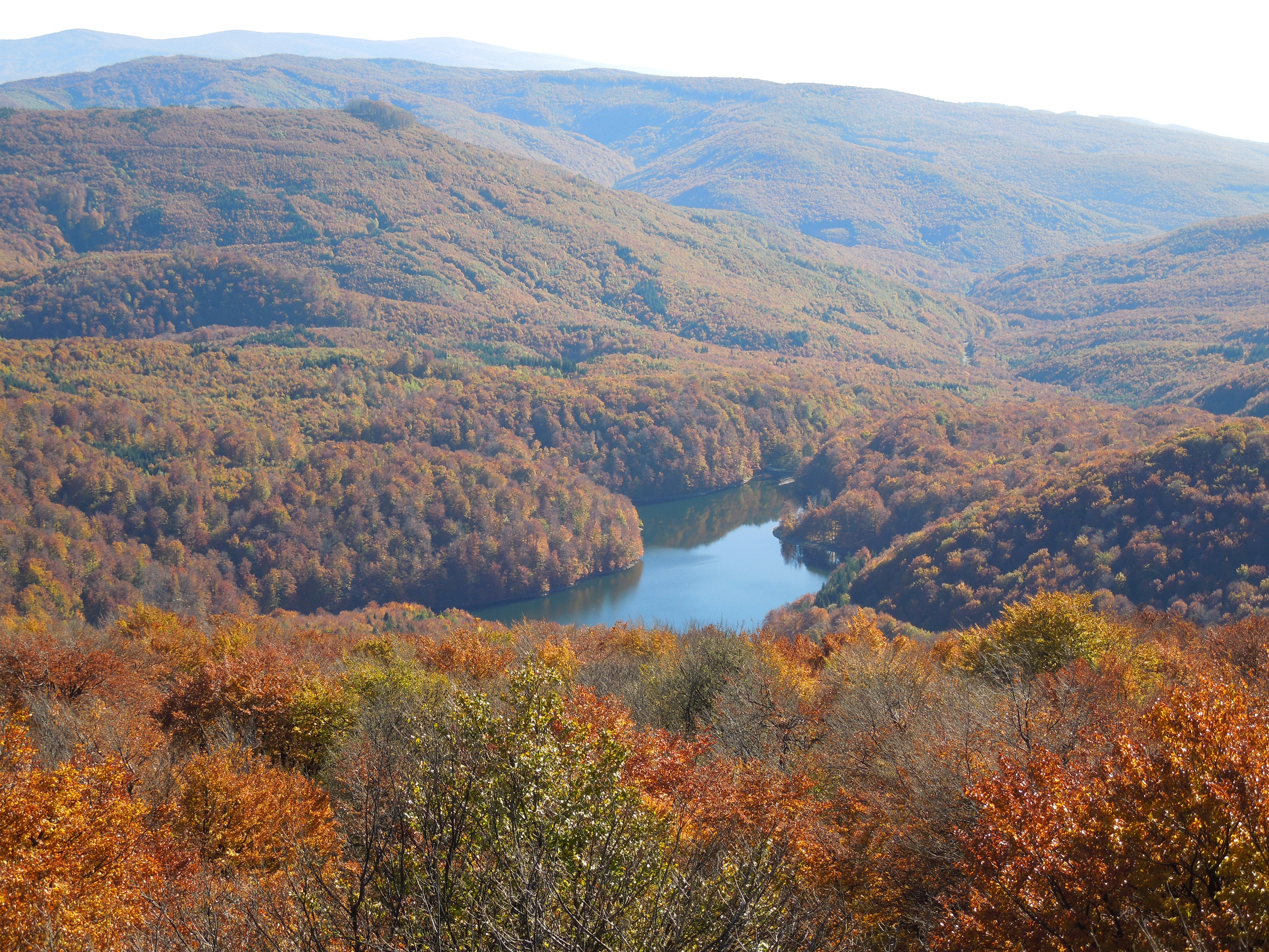 View of Sea Eye Lake from Sninský kameň in autumn This is a photography of Natura 2000 protected area with ID SKUEV0209